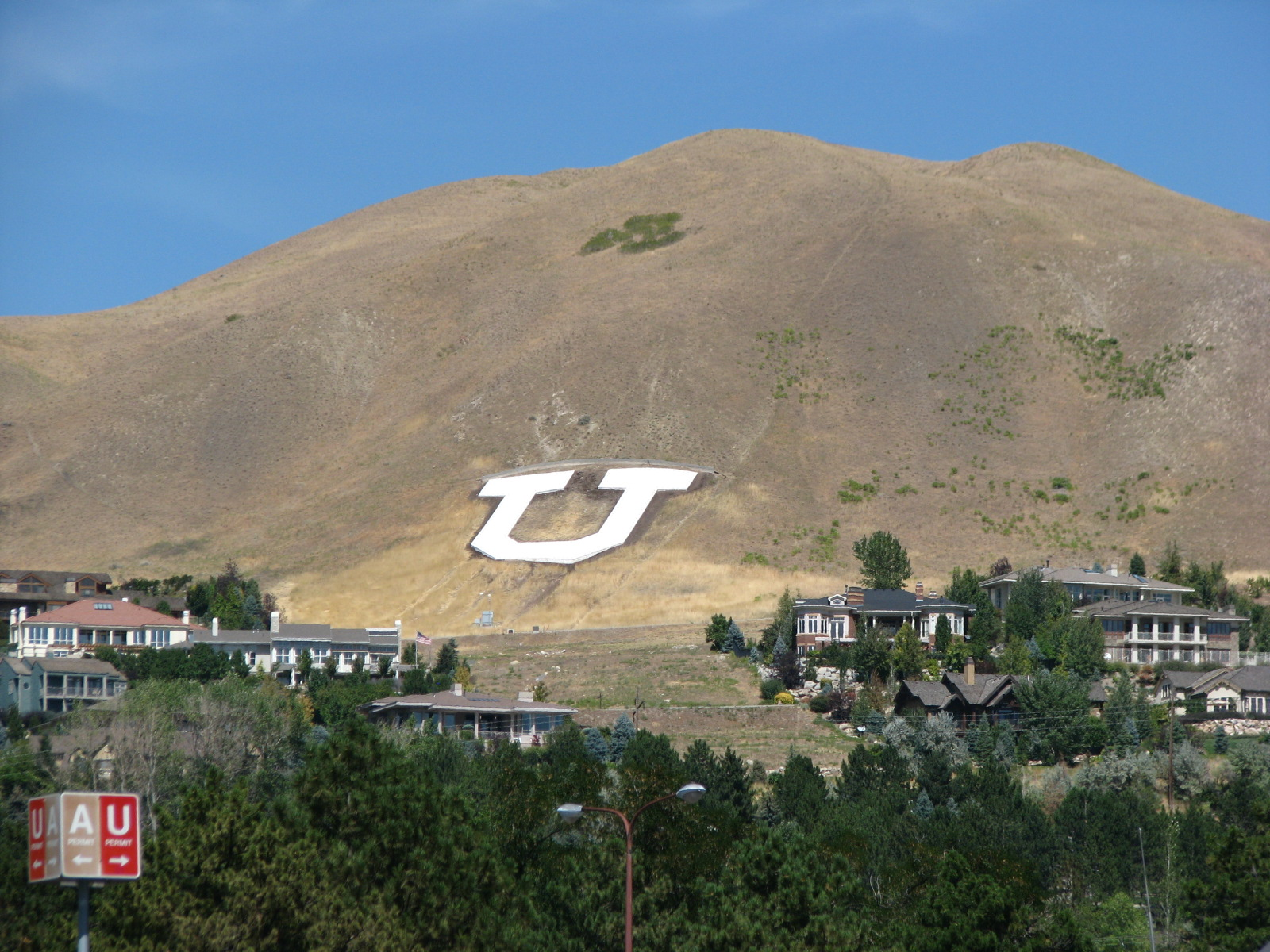 Mount Van Cott, Home of the University of Utah's Block U. Below is the Federal Heights neighborhood of Salt Lake City.